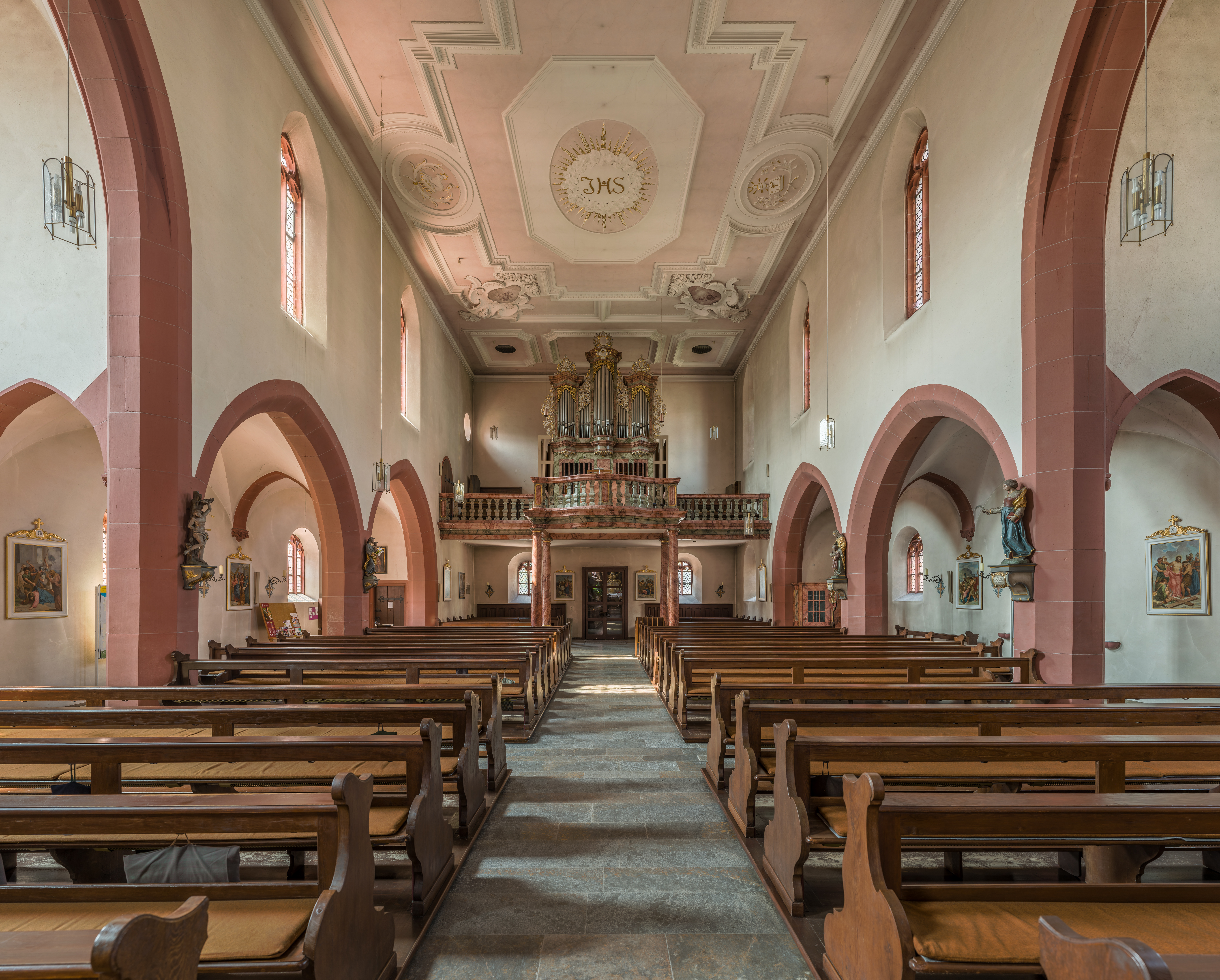 A view of the nave and organ of Mariä Geburt, HöchbergThis is a photograph of an architectural monument.